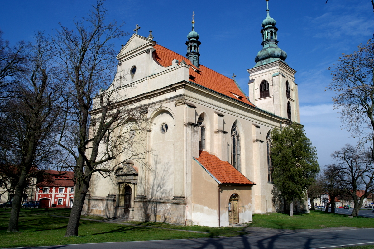 Holy Trinity Church, T. G. Masaryk square, Smečno, Kladno District. In the western part of south facade stands a low hallway. Between the southern wall of the nave and presbytery prismatic tower is inserted. Amid the pitched roof a baroque flèche is situated.